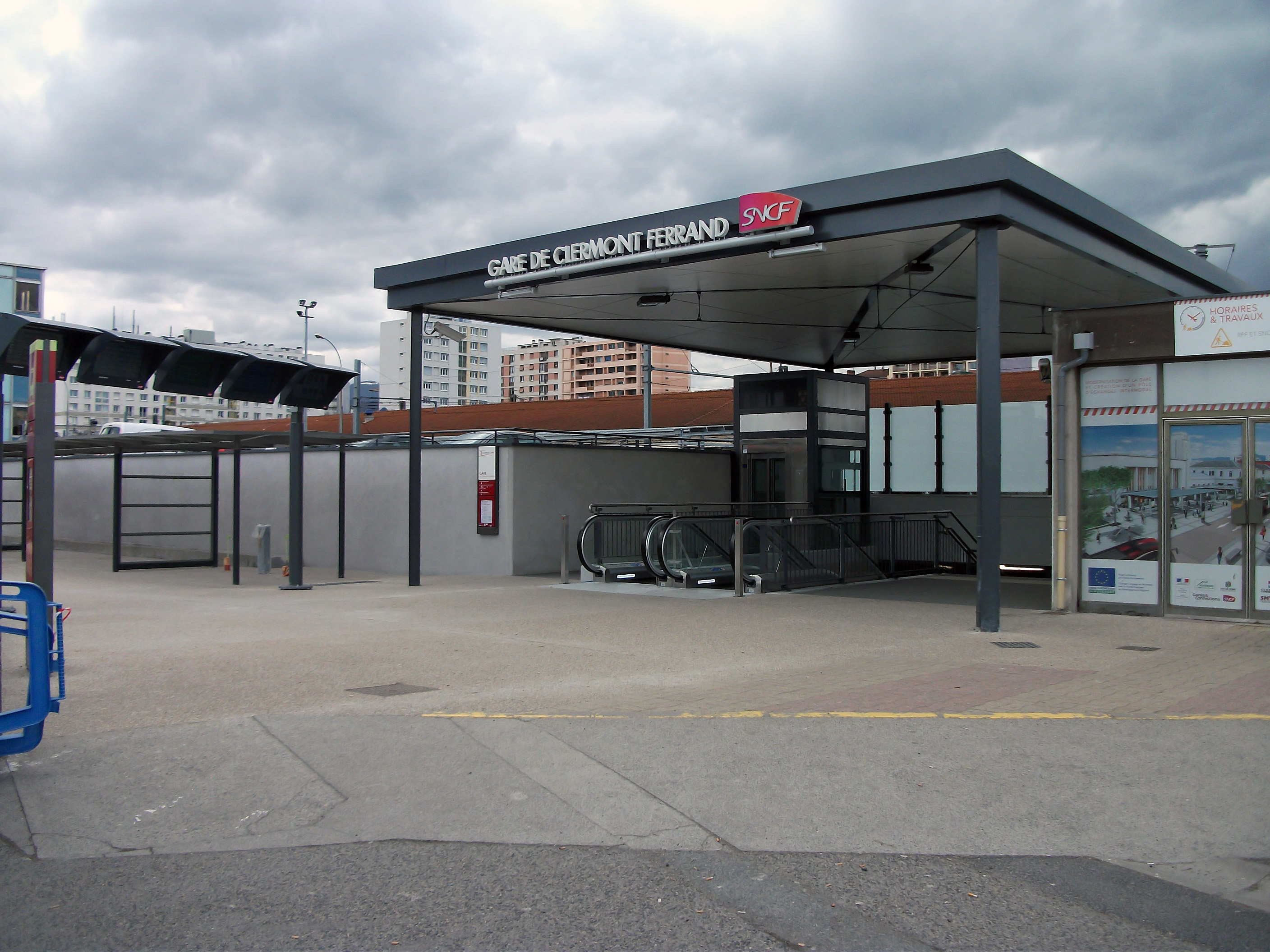 Anatole France entrance of Clermont-Ferrand railway station